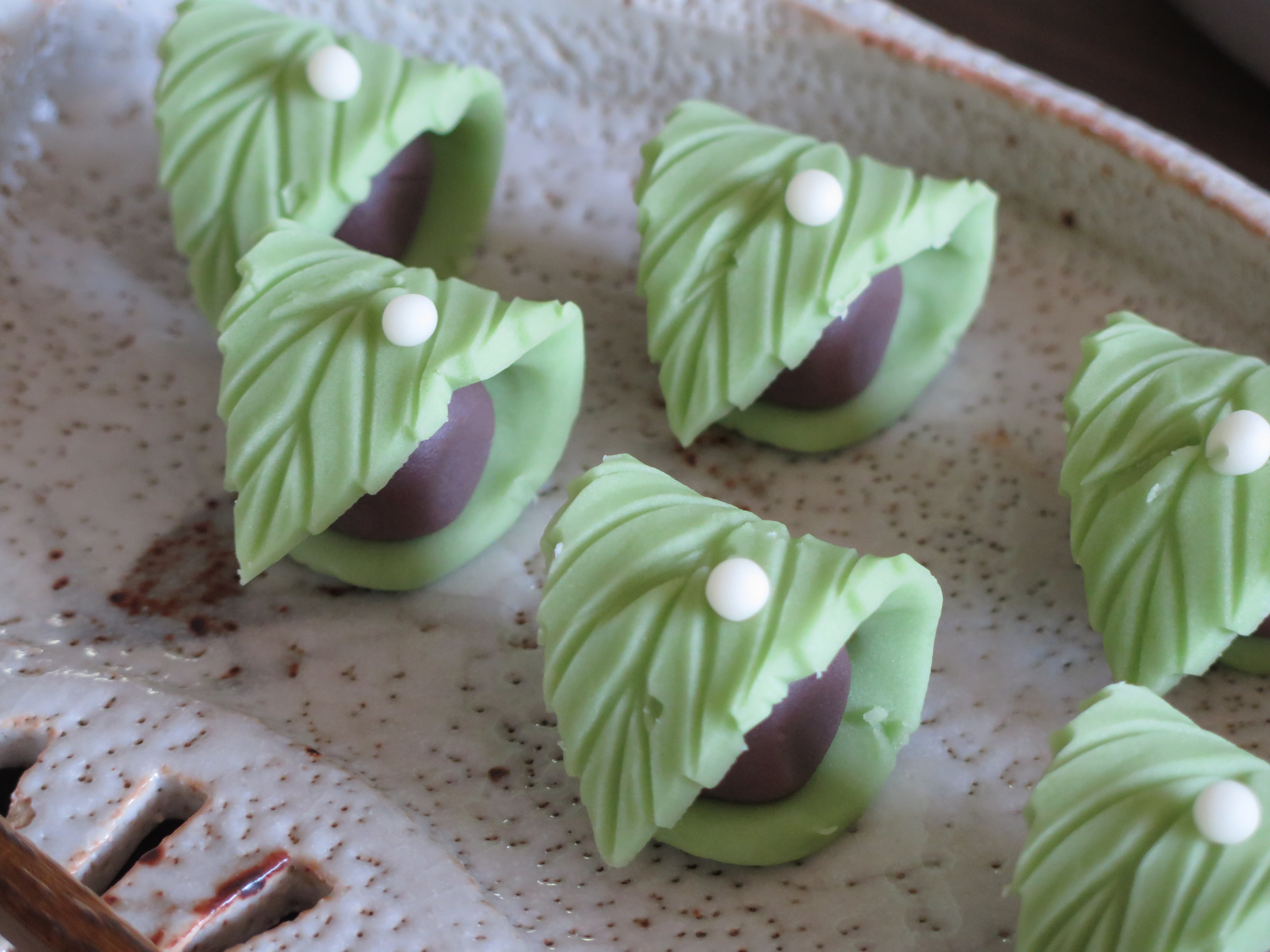 Several wagashi for the Japanese tea ceremony. These are green on the outside with a purple-colored red bean paste on the inside.